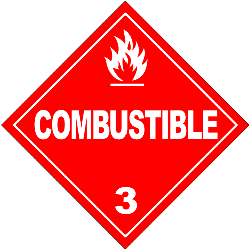 Source: "Emergency Response Guidebook." U.S. Department of Transportation, 2004, pages 16-17.